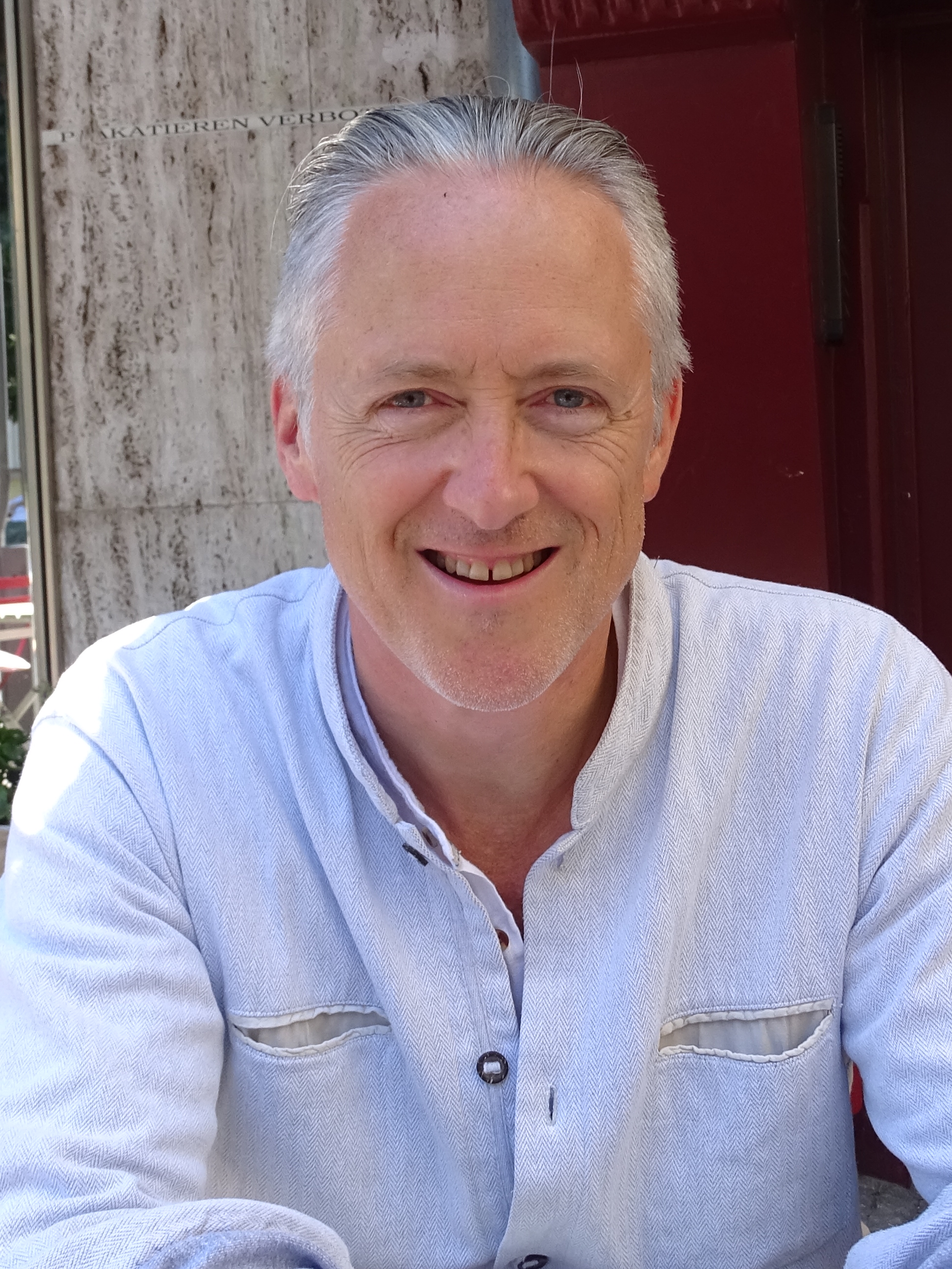 The English author Henry Lytton Cobbold